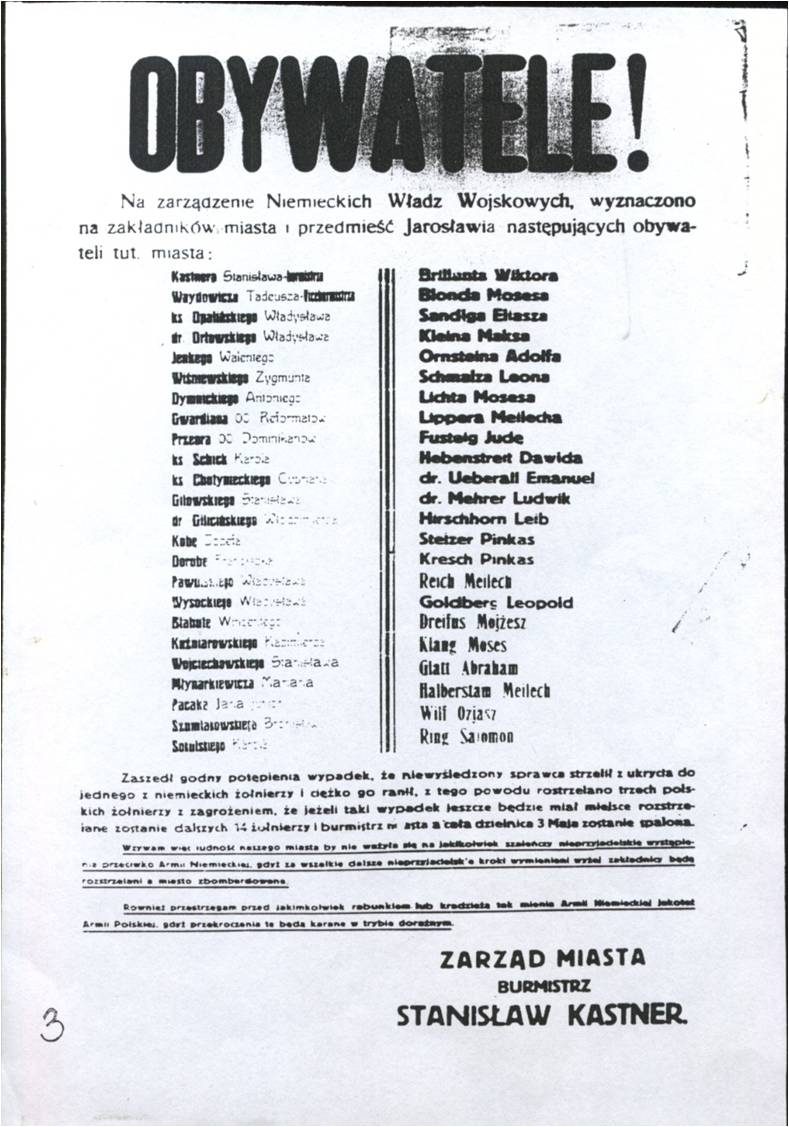 Hostages list of Jaroslaw. Translation: “Citizens! Due to your kill of SS policeman in May 3 Street this people are hostages. Prominent Jews Right Column , Wiktor Brillant is first on the list and Jaroslaw Mayor and distinguished Polish on the left column.”